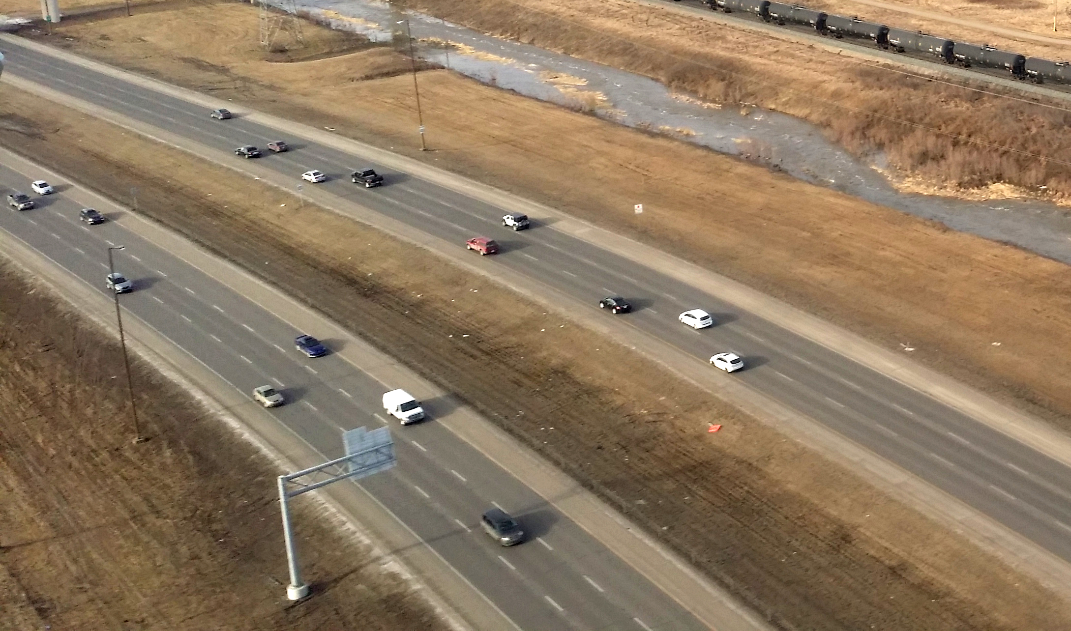 Aerial photograph of Deerfoot Trail north of the Beddington Trail interchange in northeast Calgary, Alberta, Canada.